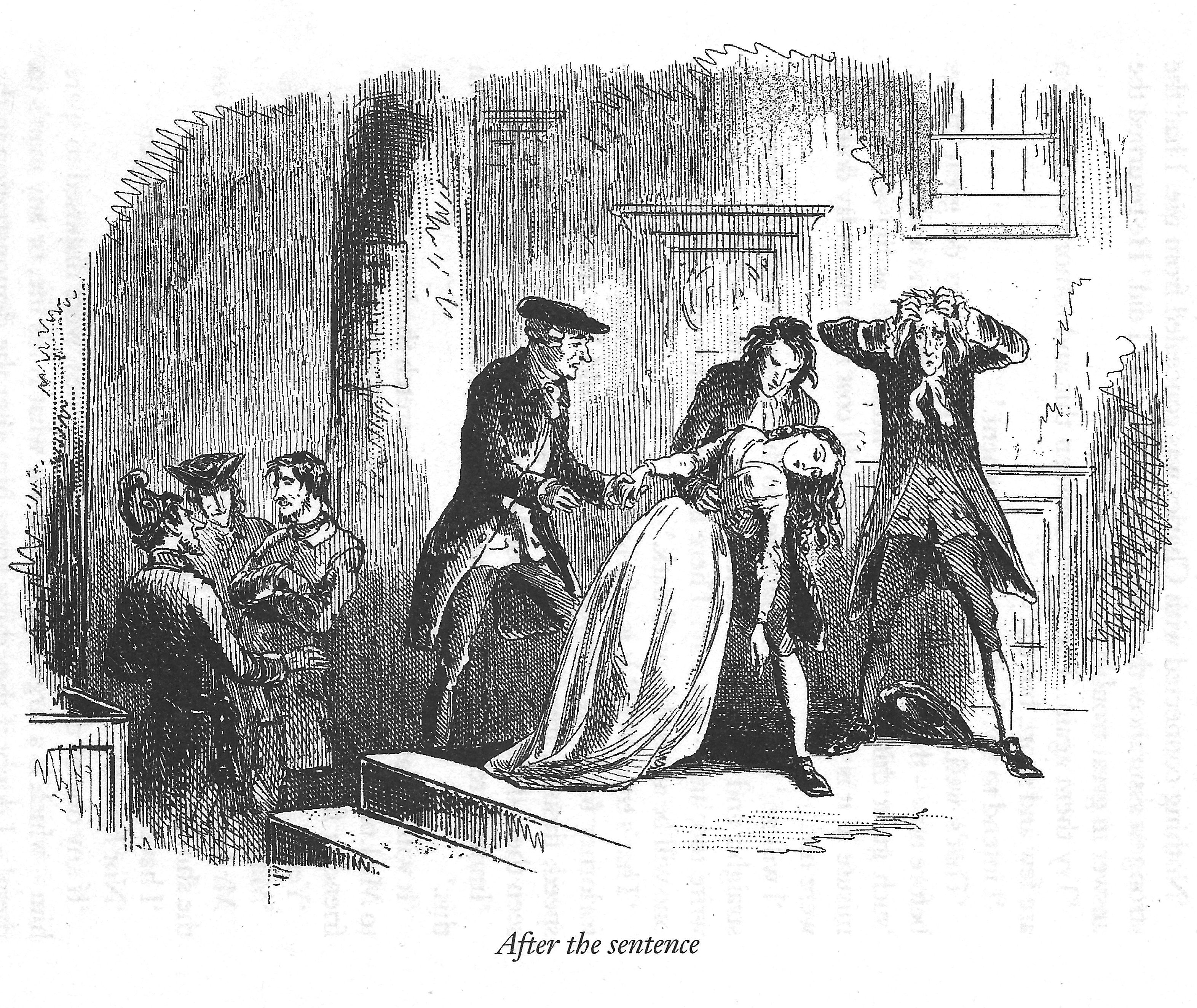 A Tale Od Two Cities, After the Sentence, by Phiz